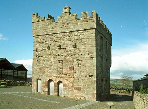 Clifton Hall, Cumbria Contents 1 Source 2 Licensing 3 Licensing 4 Original upload log Licensing Julian Thurgood of Visit Cumbria emailed User:Brookie with permission to use the picture for Wikipedia on 6/10/2006